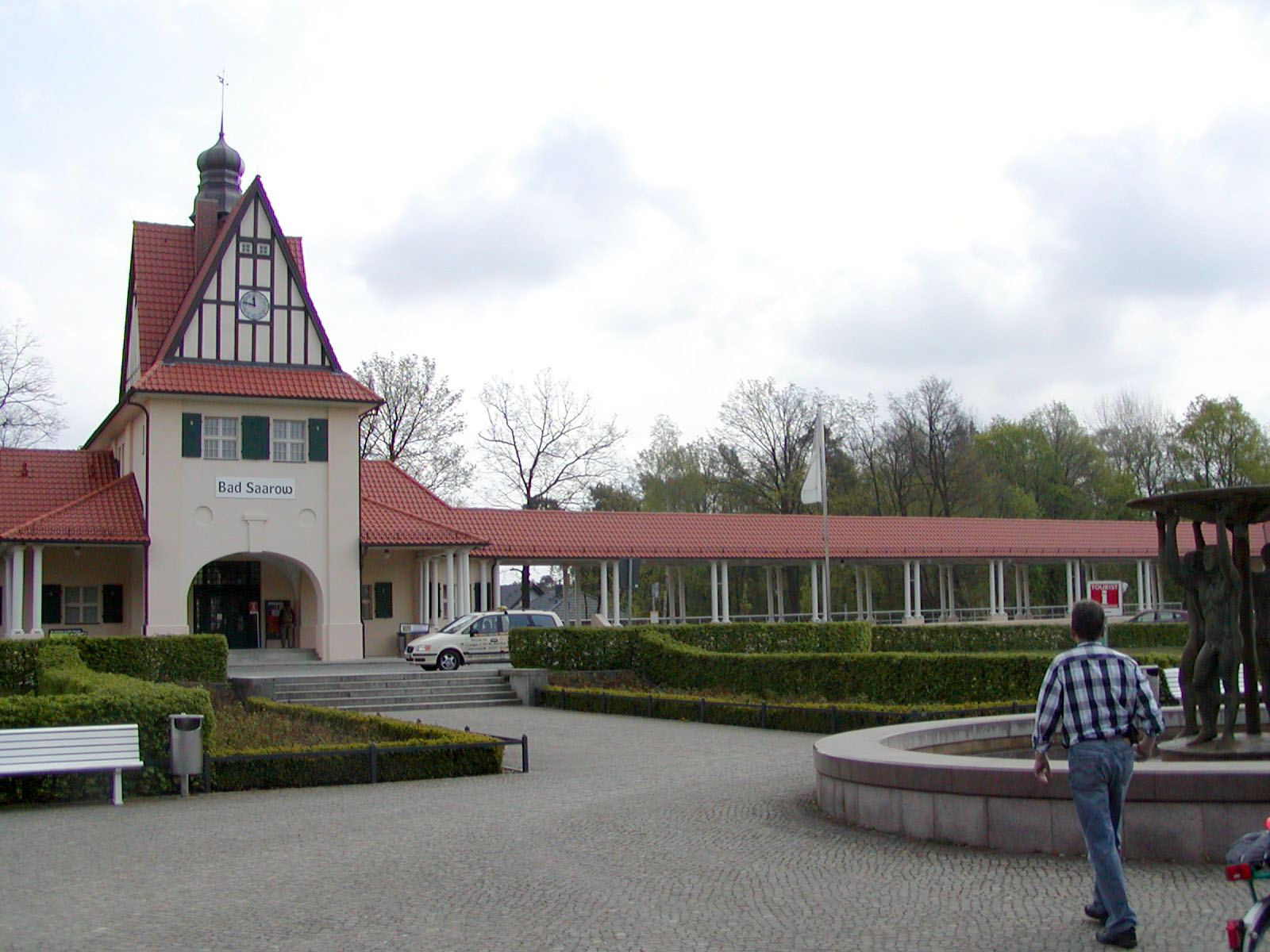 Bad Saarow Railway Station